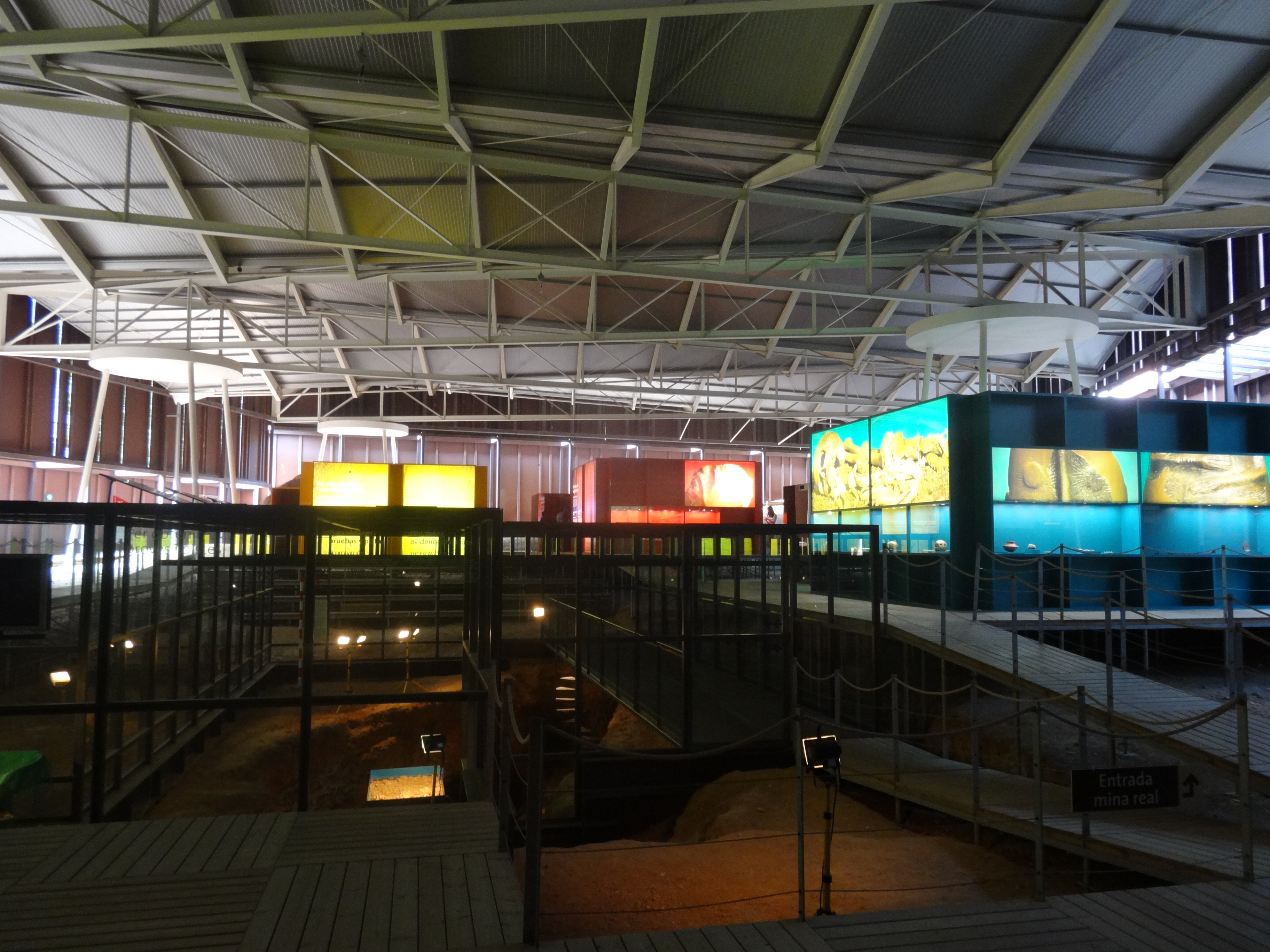 Archaeological site of the Gavà neolithic mines (Parc Arqueològic Mines de Gavà).